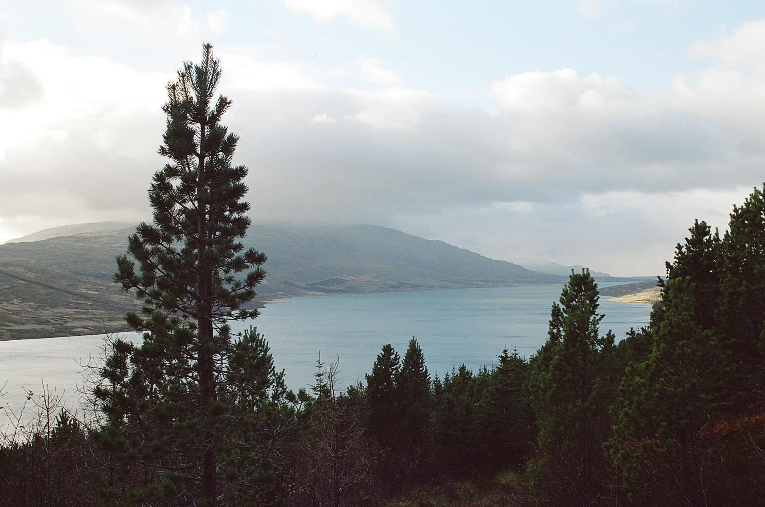 The photo shows the lake Skorradalsvatn in the west of Iceland, seen from its western side.